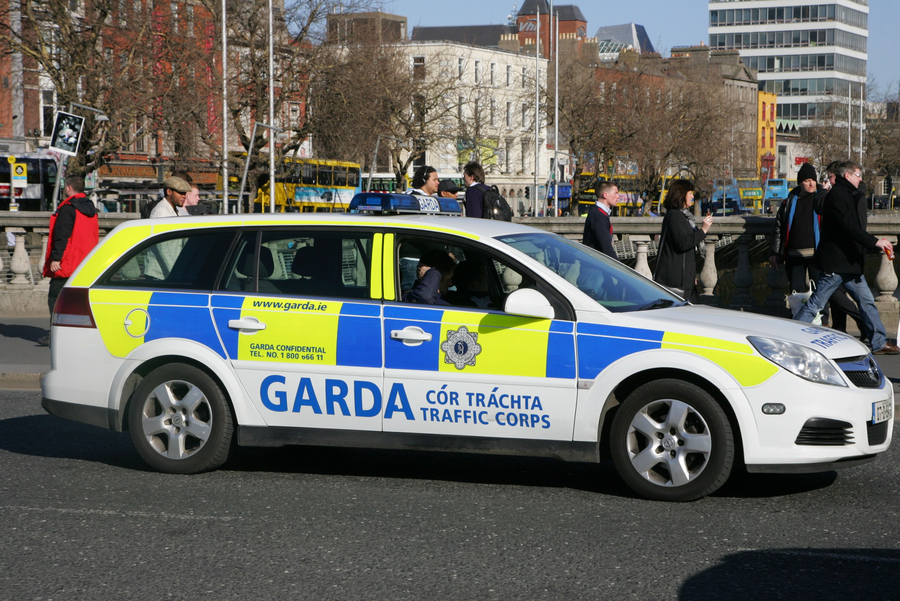 GARDA Traffic Corps Opel Vectra 2.2TDI